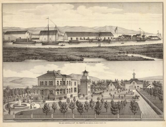 Residence and landing of Capt. Wm. Roberts, San Lorenzo, Alameda County, Cal. (Published by Thompson & West, Oakland, Cala., 1878)